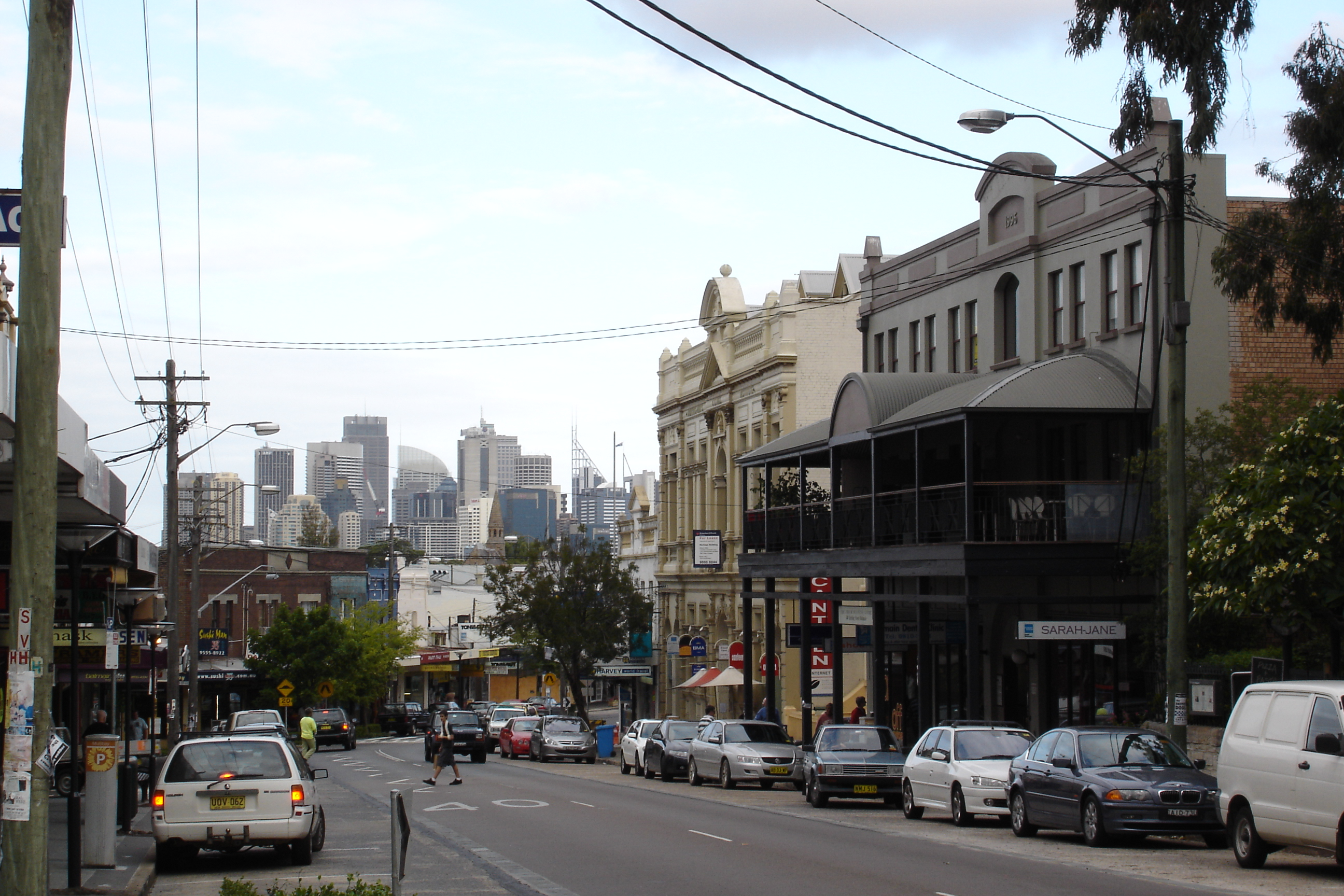 Balmain Darling Street, taken on 20/3/06 by user Amitch.